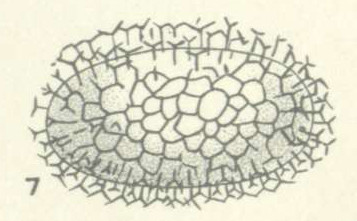 The cocoon of a terrestrial leech, Hirudobdella antipodum, found only on the Open Bay Islands of New Zealand